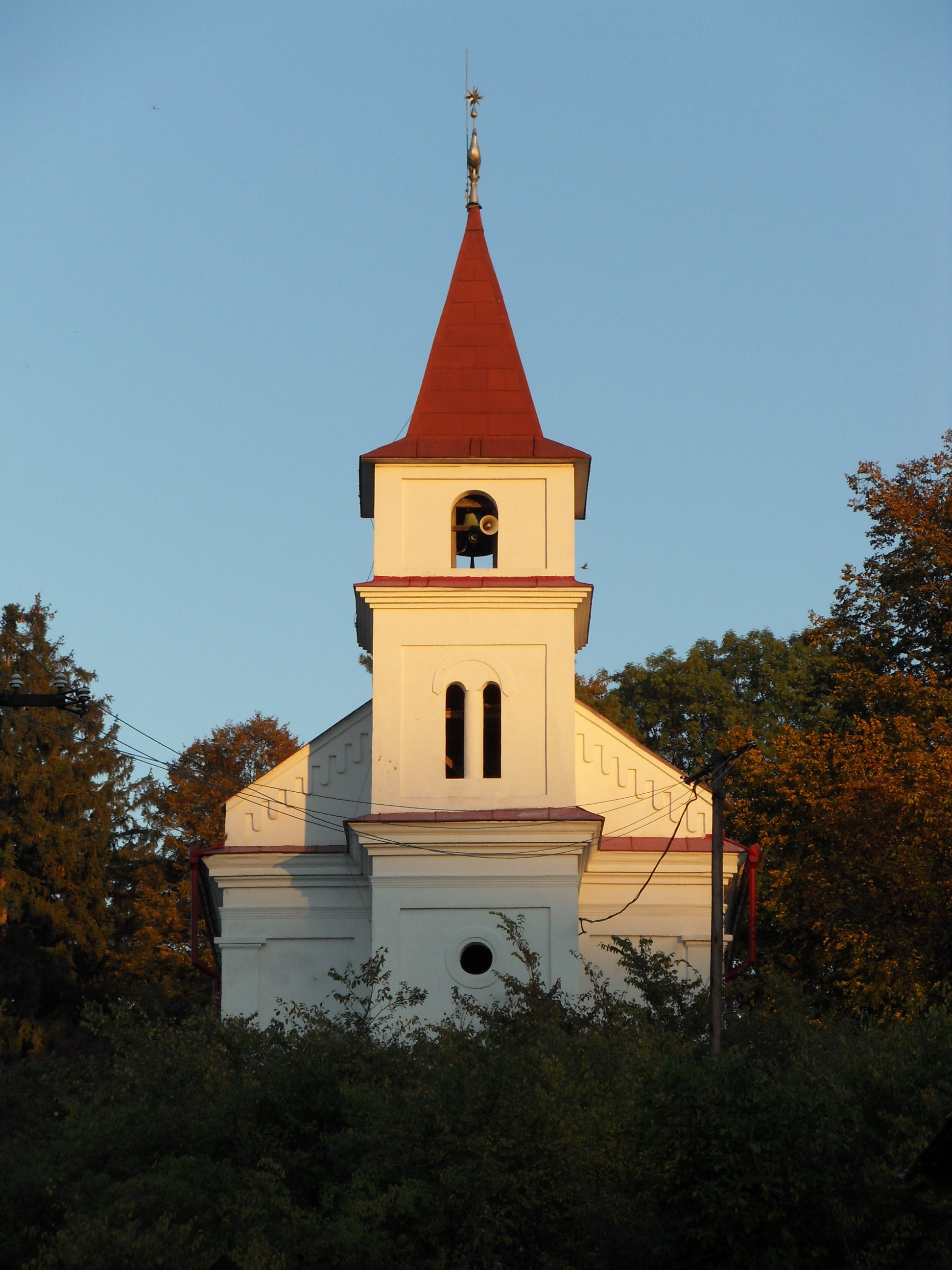 Reformed Church in Jéne